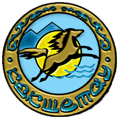 Kokshatau seal (